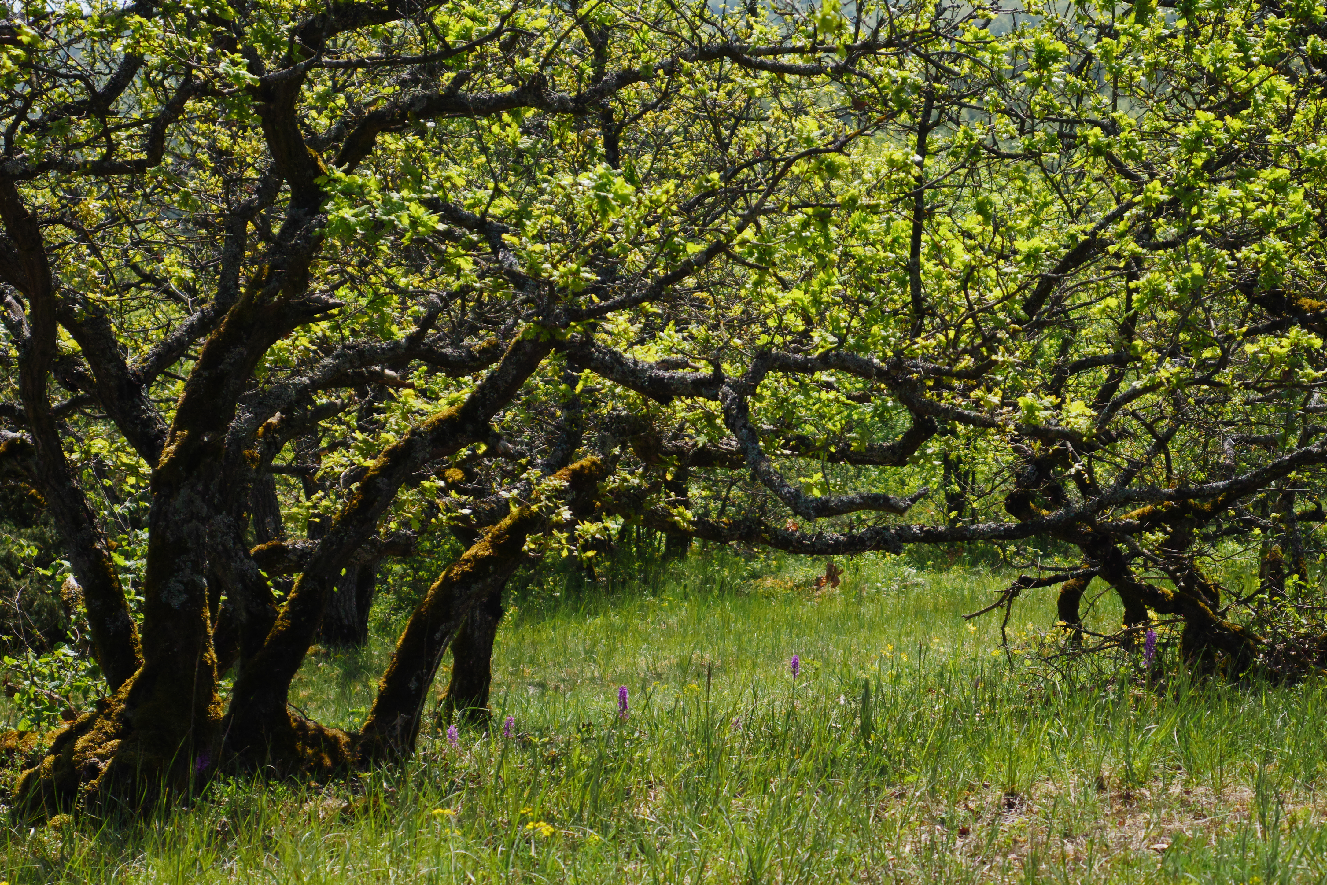 Dry grasland with orchids and oak trees on the Mäusberg in Lower Franconia, Germany